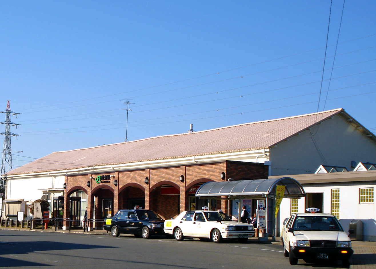 Narutō Station building (after the 2008 renovation}, in Sammu City, Chiba